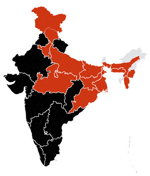 This show the affected states in India Black-Deaths Red-Confirmed cases